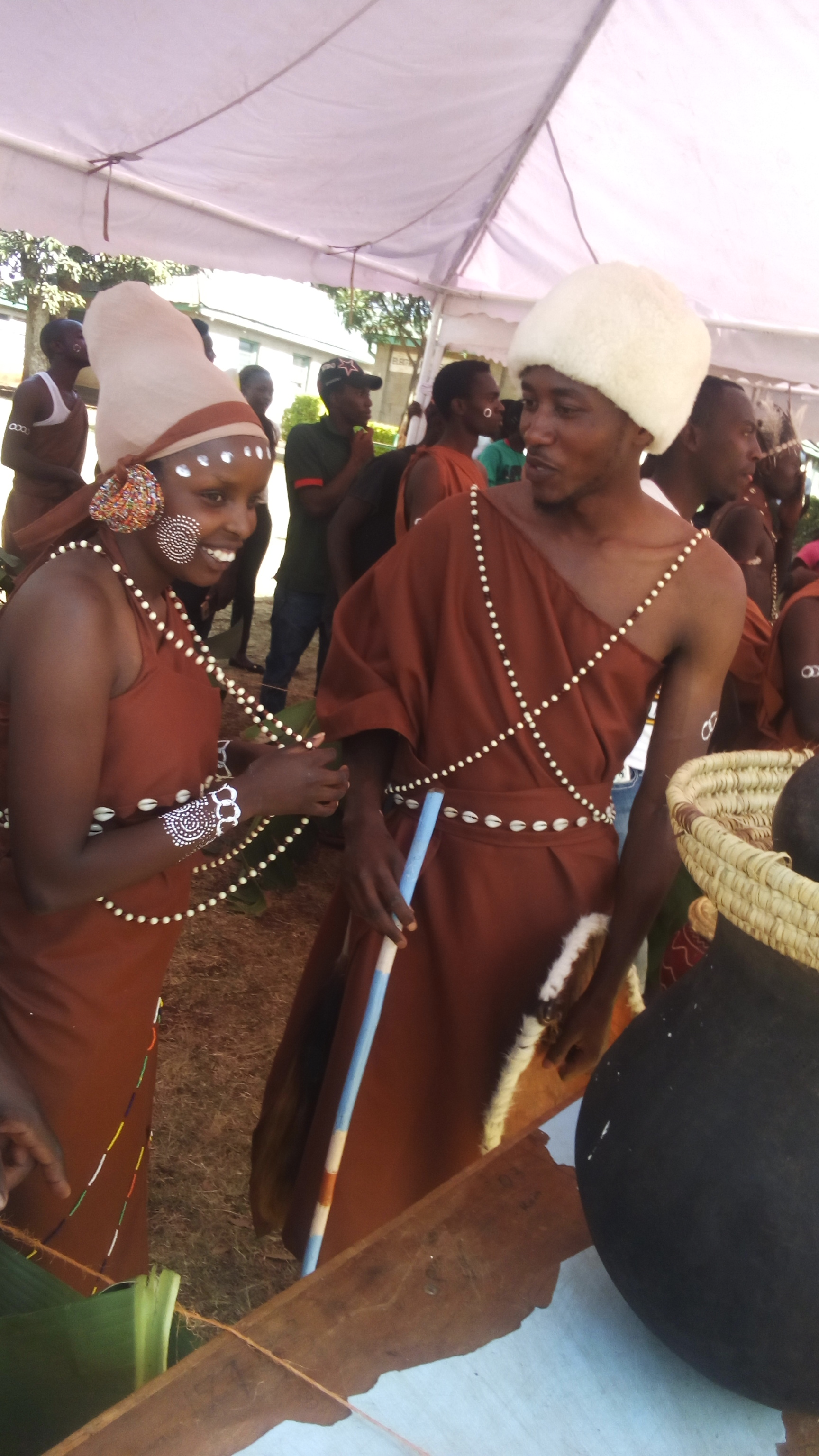 The white cape worn by a man represents authority and responsibility the man also carried a shield for defence This photo has been taken in the country: Kenya